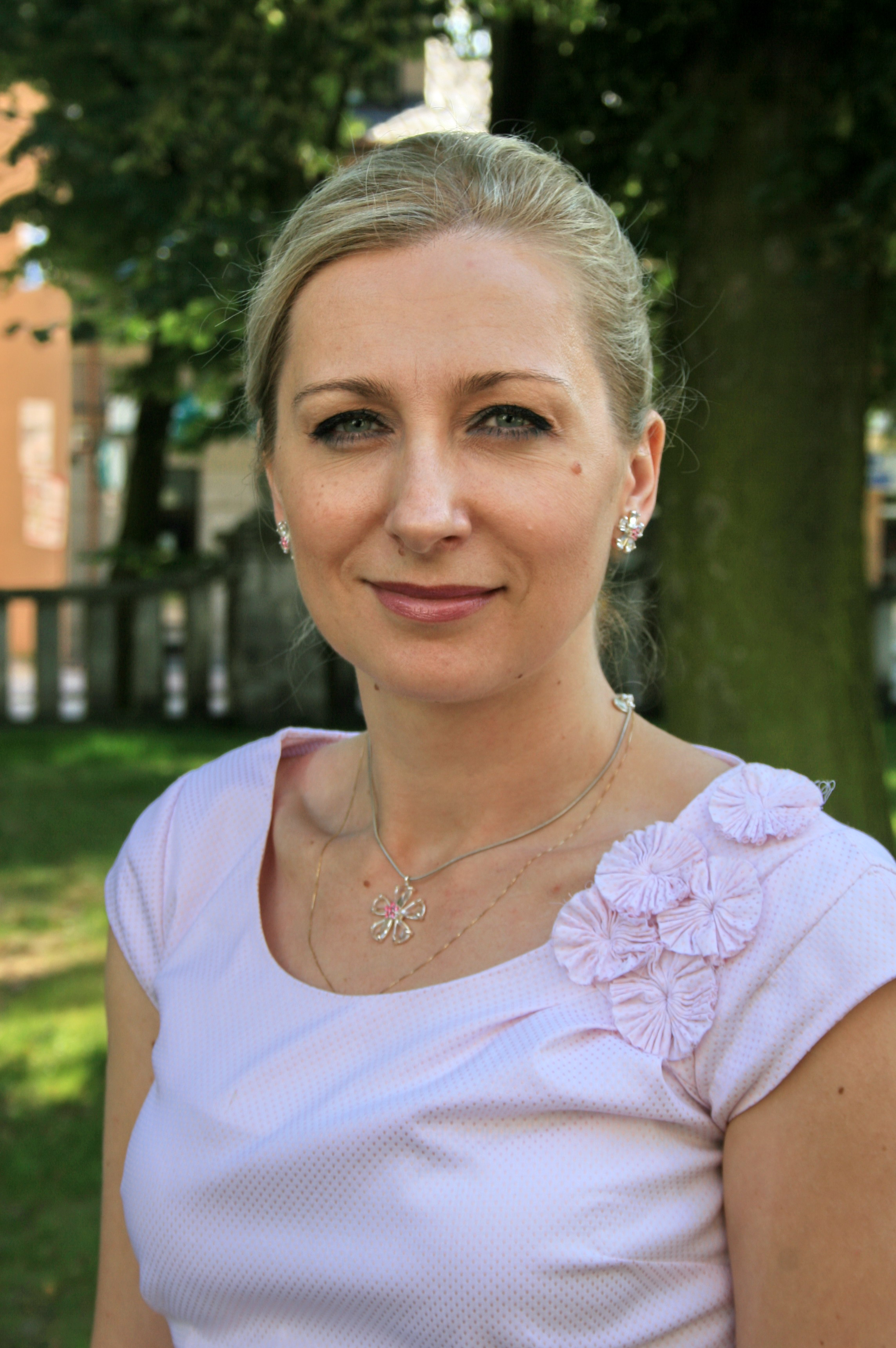 Renata Drozd - Polish opera singer, soprano spinto. Busko-Zdroj, 7 July 2013